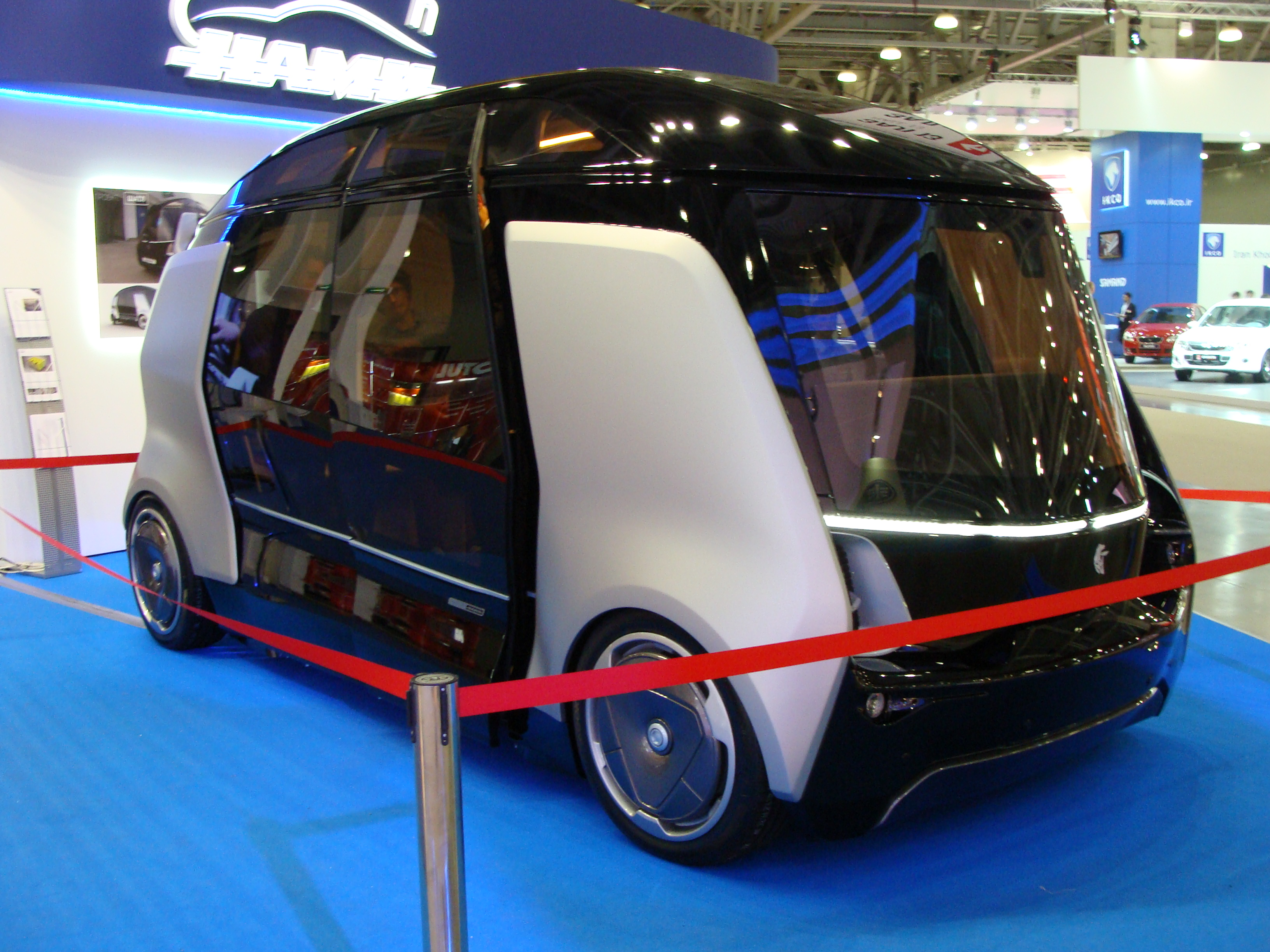 KamAZ "Shuttle" on Moscow International Automobile SalonMoscow International Automobile Salon in 2016.